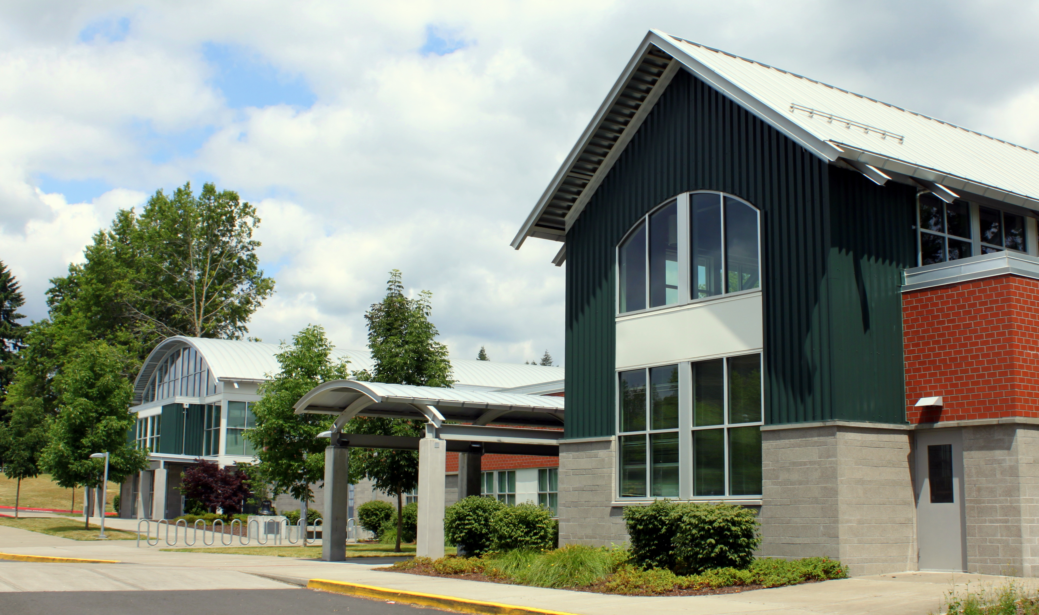 Metzger Elementary School in Metzger, Oregon near Portland, Oregon.